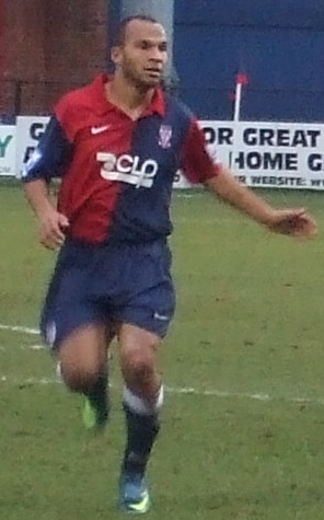 Simon Brown